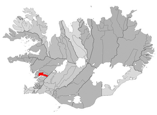 Based on Municipalities of Iceland.png.